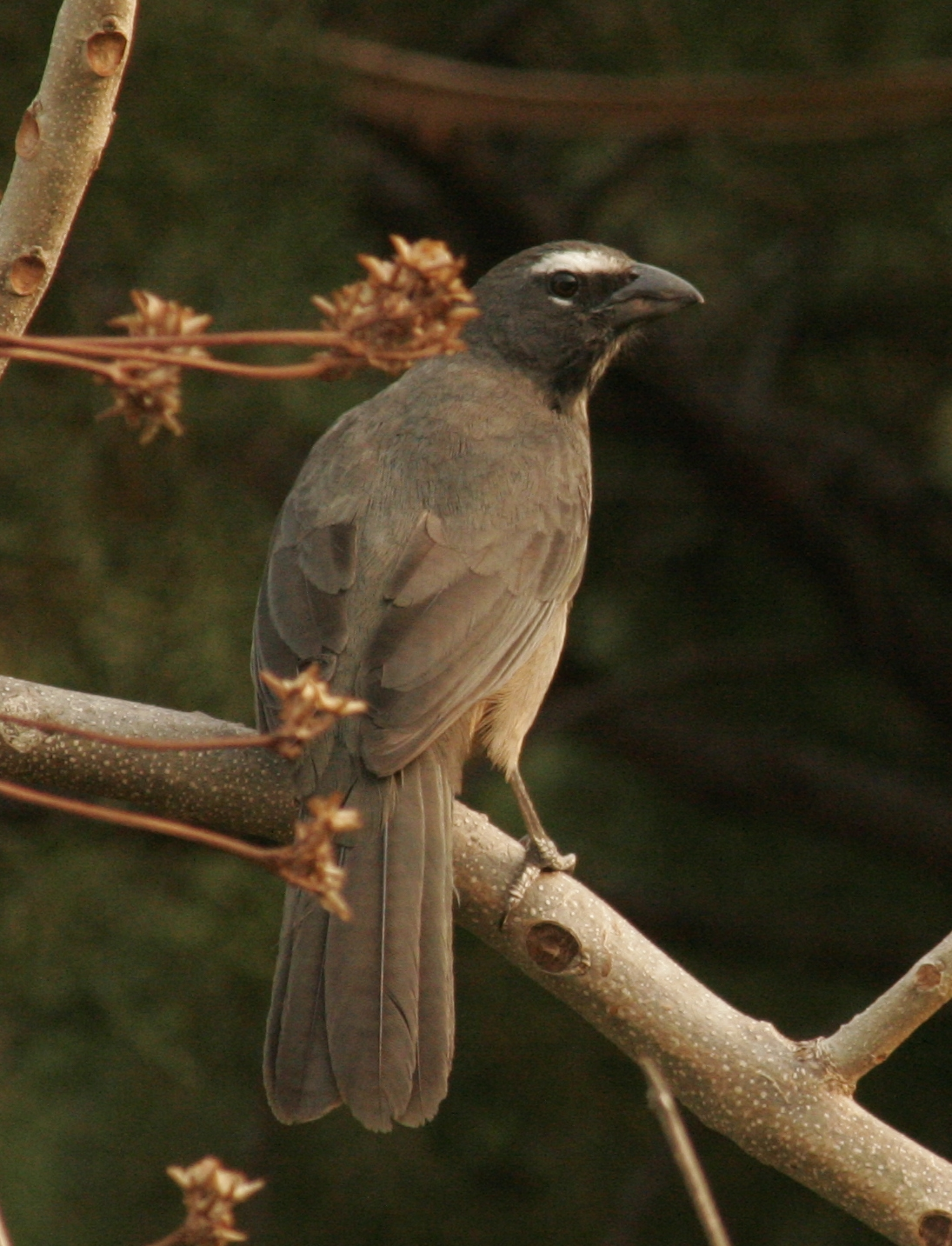 Greyish Saltator on a Jacaranda Tree.